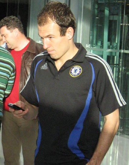 Robben concentrating on imaginary text